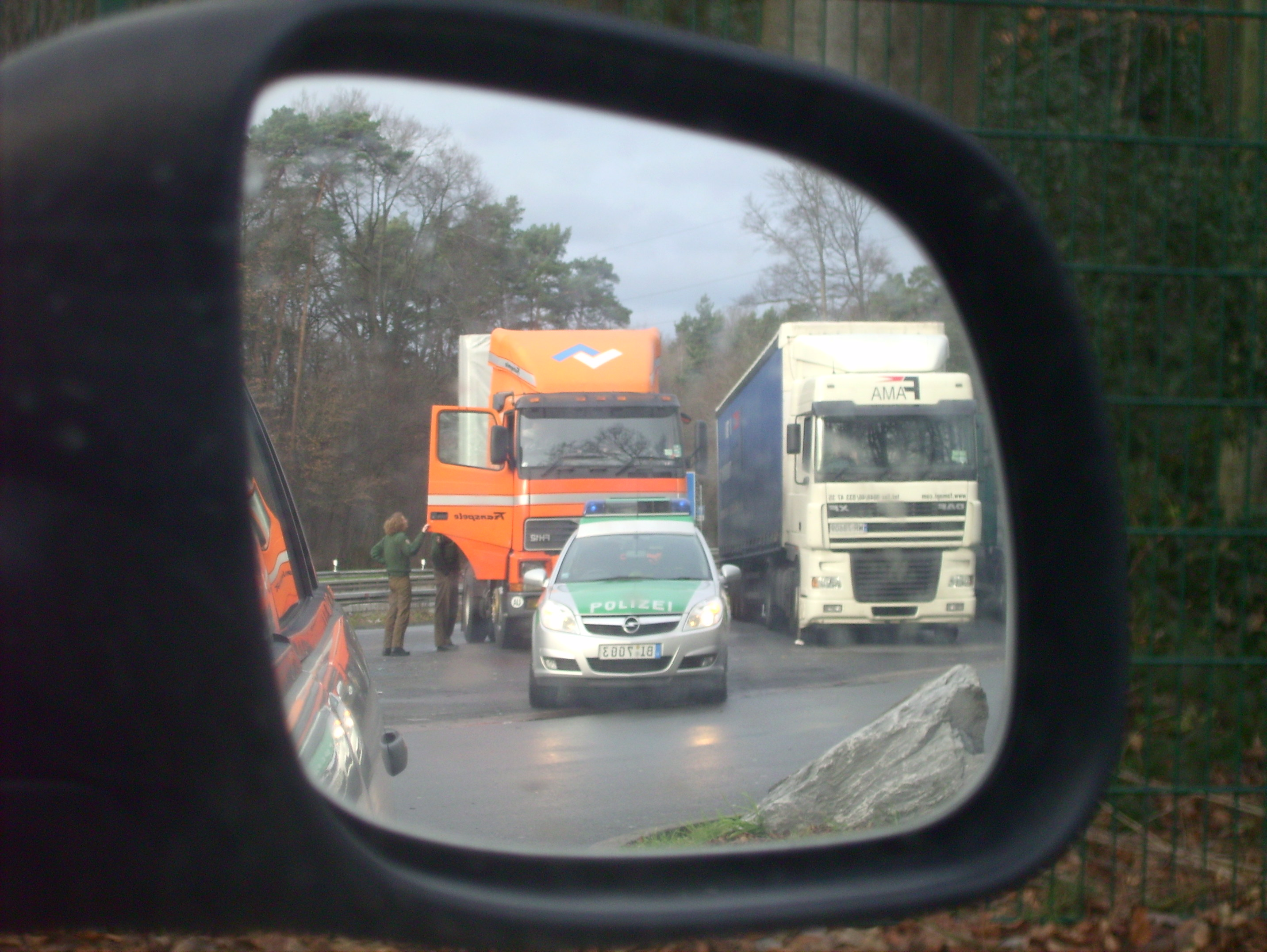 German Autobahn police performing a vehicle check with a ukrainian truck on a rest station. As the images is taken through a car's mirror, "POLIZEI" written in mirror writing is readable, not in reverse ("IEZILOP") as the license plate.